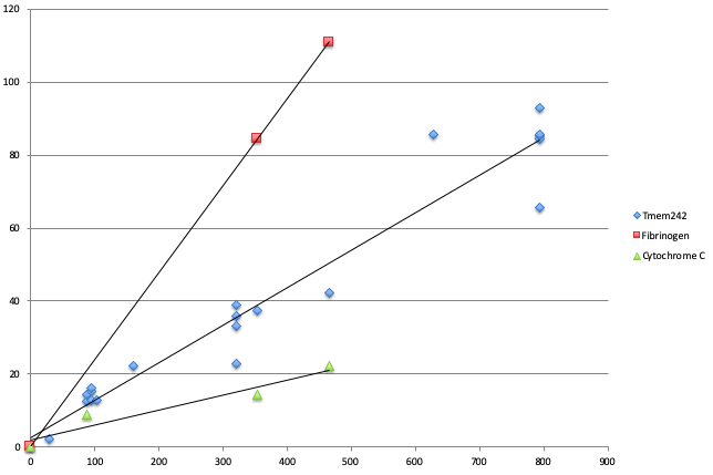 This is a graphical image I created about the divergence of tmem242 compared to fibrinogen and cytochrome C